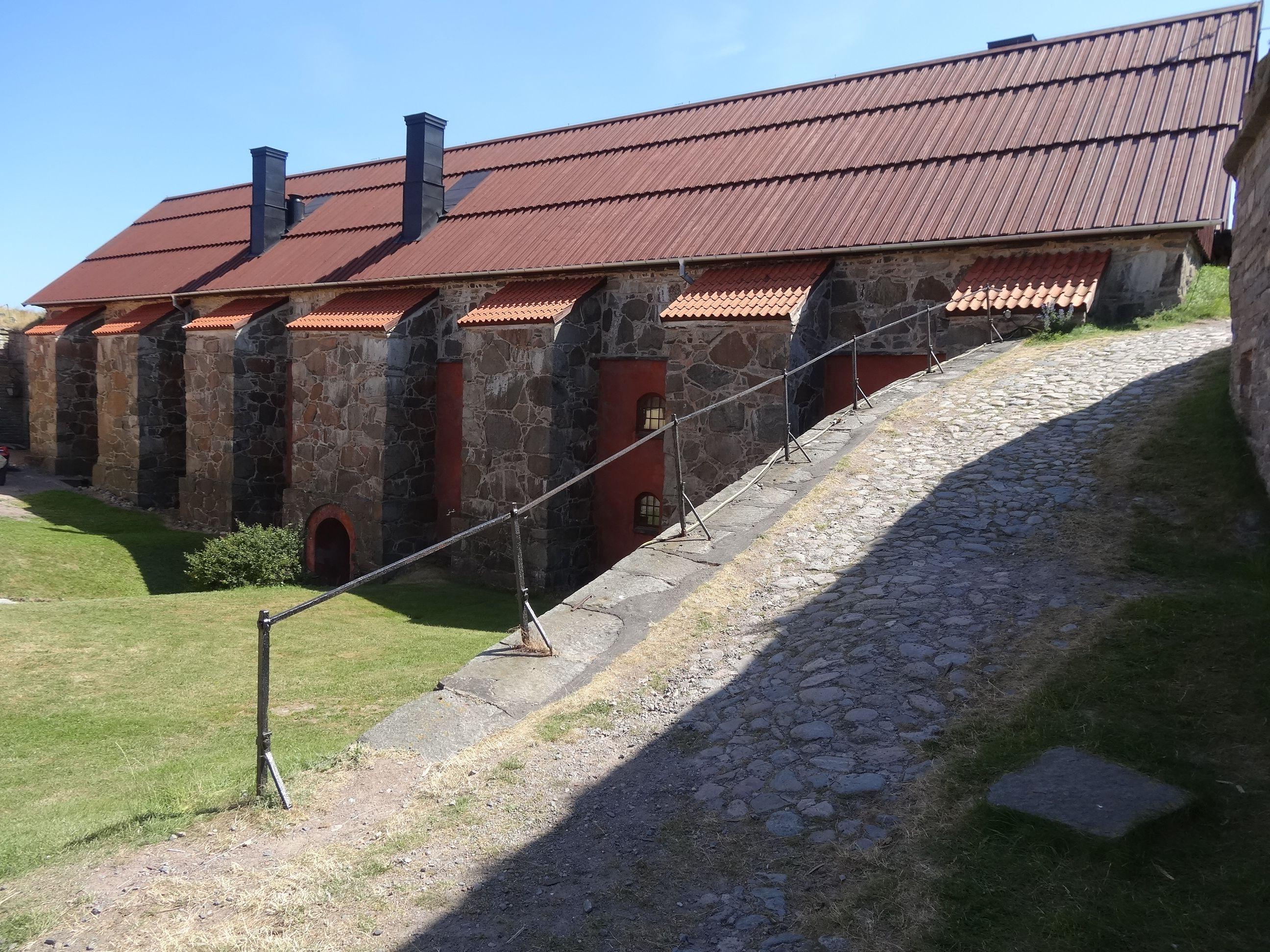 View of the reinforced curtain wall 5 at fortress Nya Älvsborg. Originally built to accomodate guns in three stories. Now a place for food and celebration, with up to 130 seats.